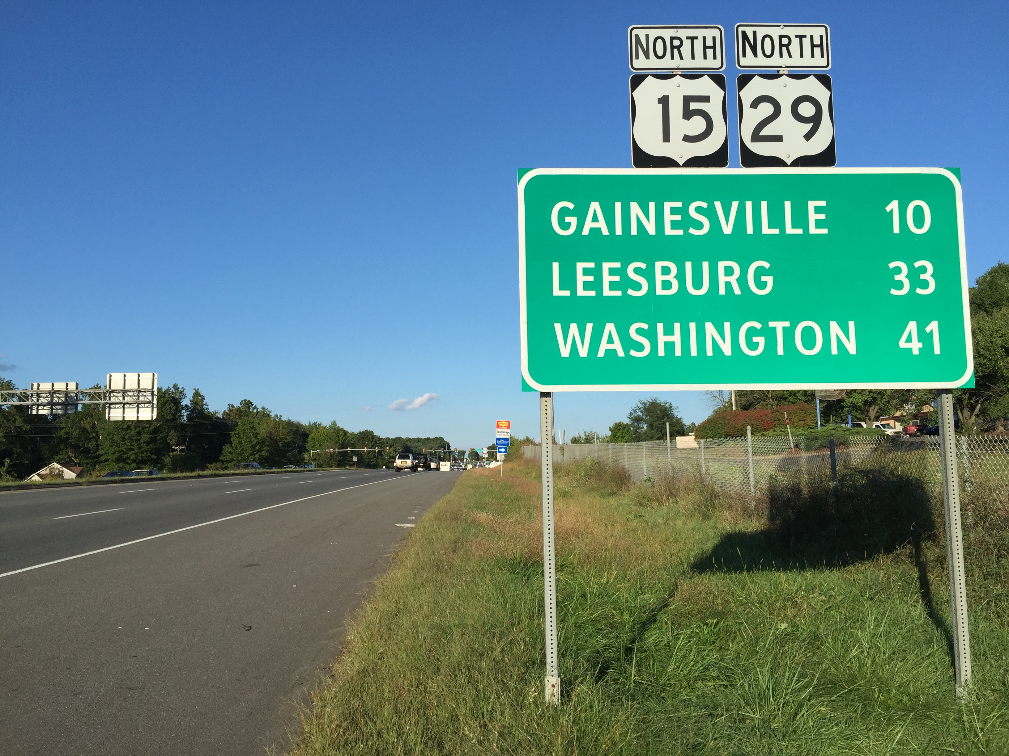 View north along U.S. Route 15 and U.S. Route 29 (Lee Highway) at Comfort Inn Drive (Virginia State Secondary Route 793) just north of Warrenton in Fauquier County, Virginia